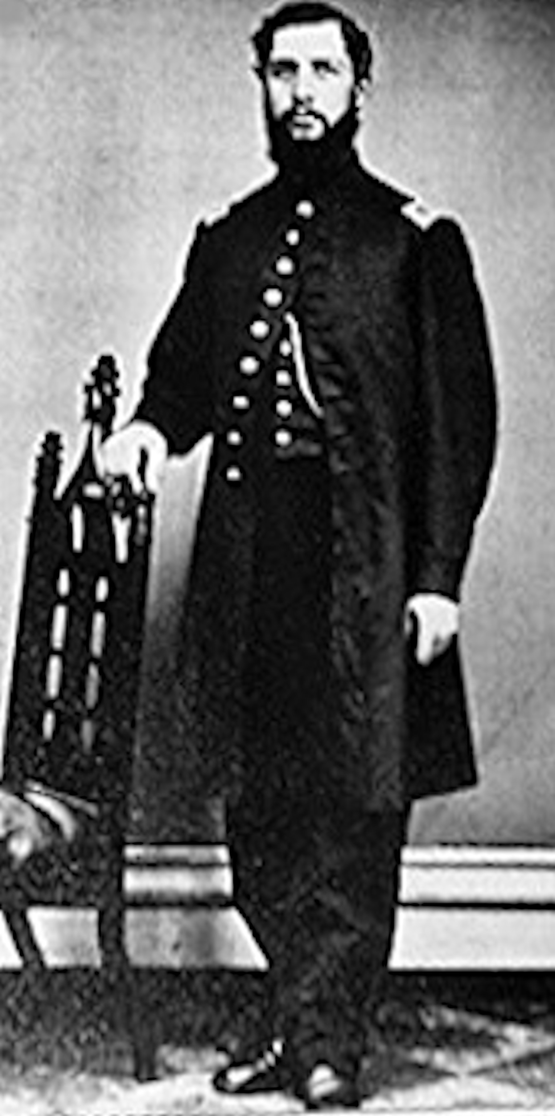 Medal of Honor winner Robert Stoddart Robertson